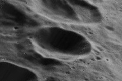 Oblique view of Ramon (crater), on the far side of the moon, facing west.